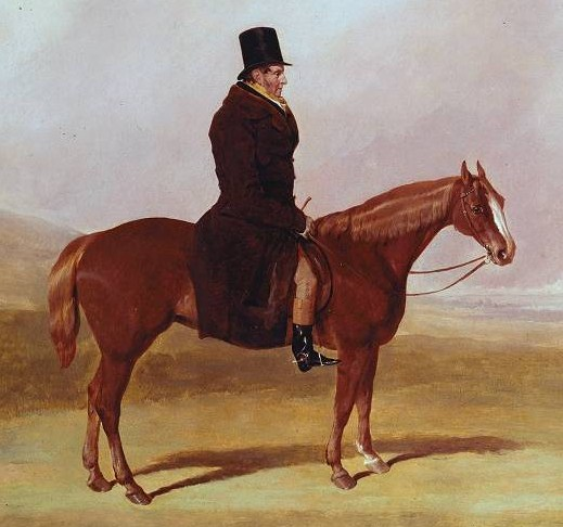 John Barham Day with his Sons John and William on Newmarket Heath (detail)